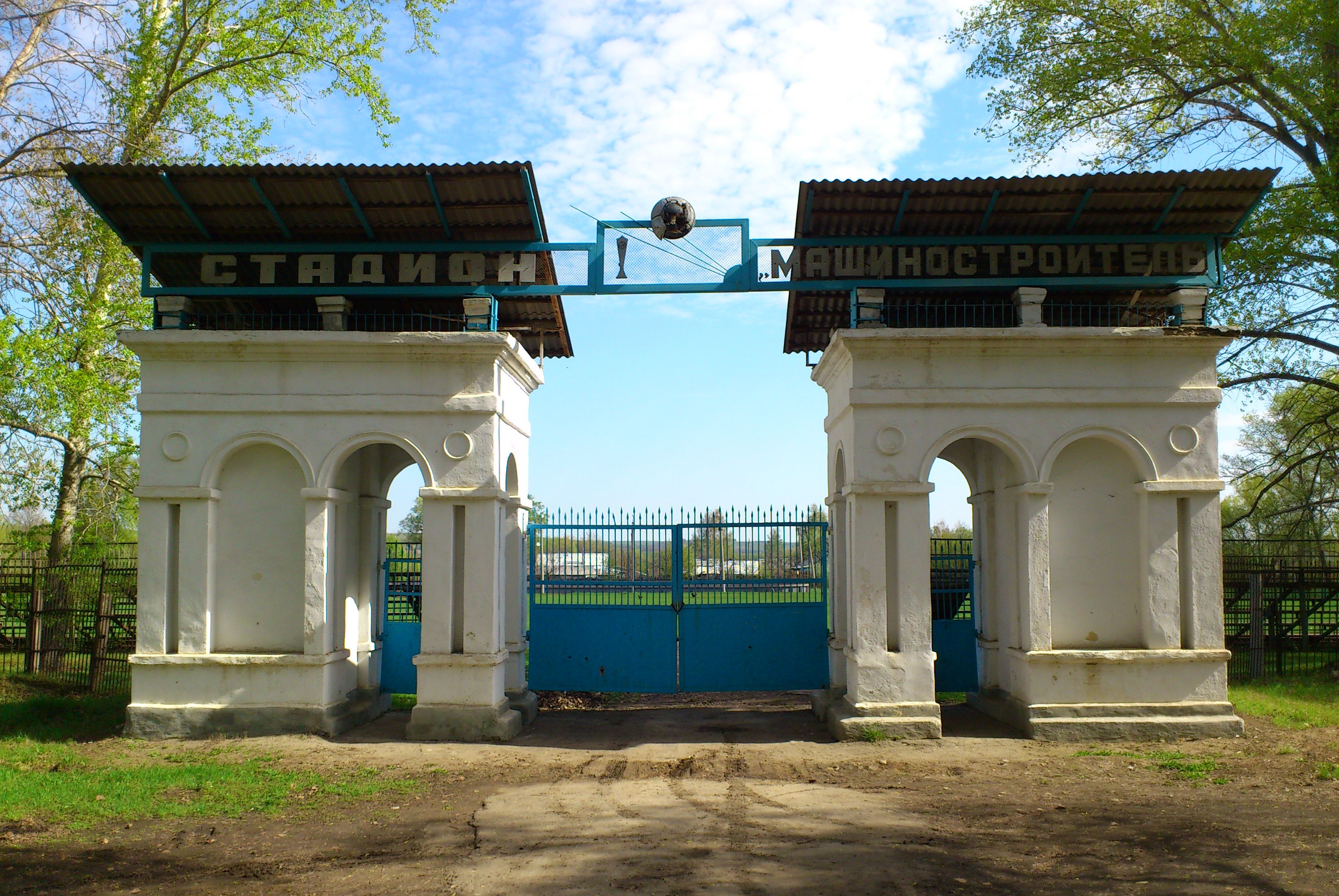 Skopin. Stadium of Zarechniy Microdistrict